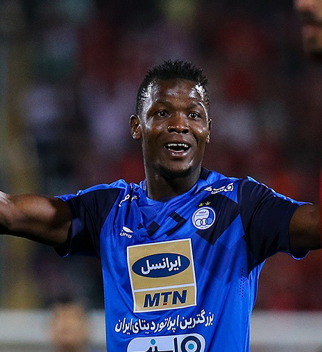 AlHaji Gero with Esteghlal